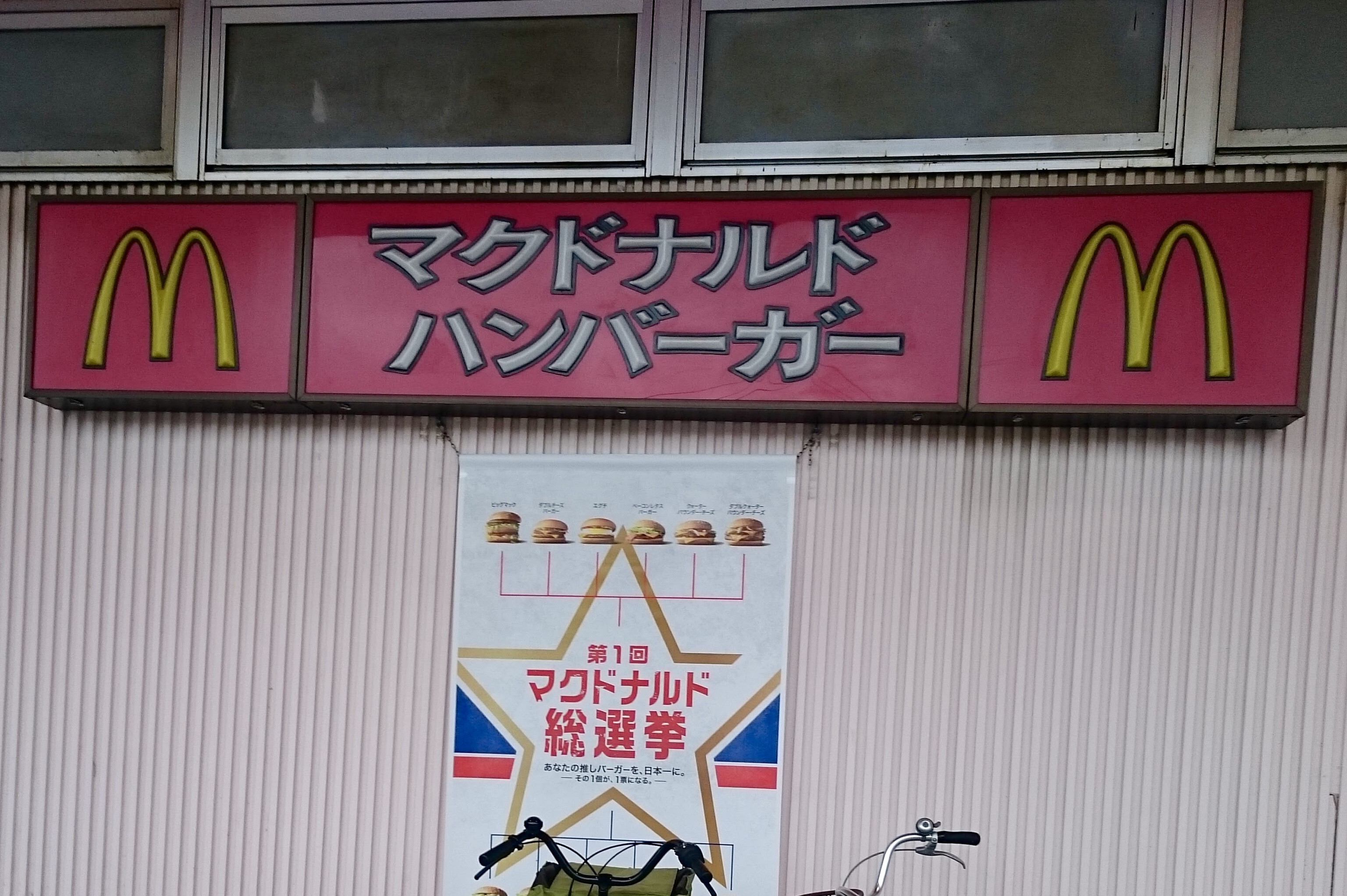 Signs of "McDonald's hamburger"